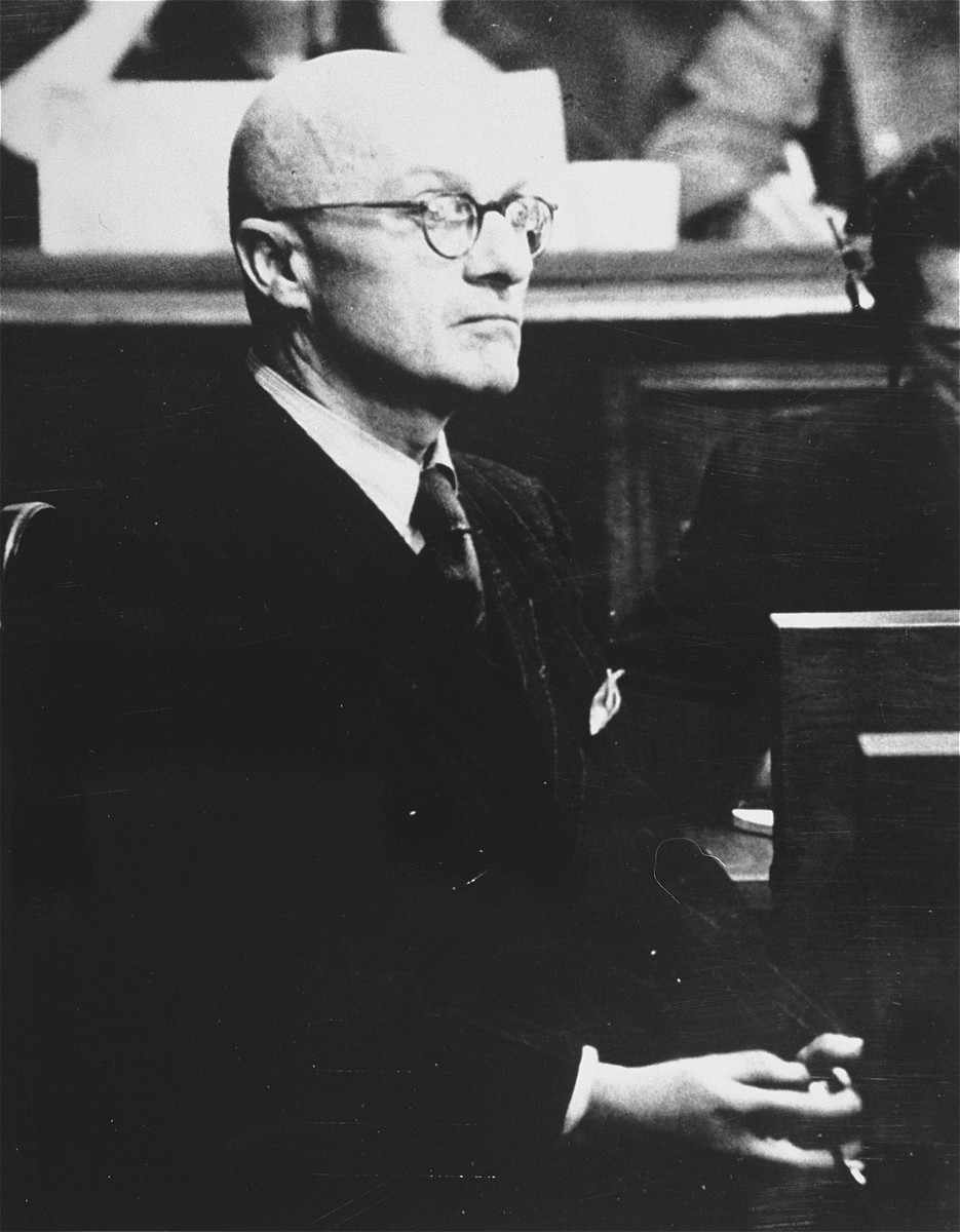 Defendant Gregor Ebner testifies on the witness stand at the RuSHA Trial.Gregor Ebner (1892-1974), SS-Oberfuehrer, was Chief of the Main Health Department of Lebensborn. Ebner joined the NSDAP in 1930, and the SS shortly afterward. He was considered an expert on matters of "racial hygiene," and became a special SS lecturer on "problems of racial selection." A close friend of Heinrich Himmler from their school days, Ebner was able to secure a position in the RuSHA, the Office of Race and Resettlement in the Lebensborn program, a system of houses for women of Aryan descent and SS men to "breed" children. At the Steinhoering Lebensborn house, Ebner presided over the birth of some three thousand illegitimate children and performed reproduction experiments on women. As a physician, it was Ebner's duty to determine which children from occupied territories were suitable for "Germanization". Those that were deemed suitable, often the children of Poles or Czechs, were kidnapped; those that were not suitable were often deported to concentration camps. Towards the end of the war, Ebner was captured. He was tried for crimes against humanity, war crimes, and membership in a criminal organization as one of the defendants in the "RuSHA Case" in Nuremberg. He was acquitted of the first two charges, and convicted on the the third, but was released, having already served his time. He died in 1974, still convinced that Lebensborn was the salvation of German blood. [Source: Henry, Clarissa and Hillel, Marc. "Of Pure Blood". McGraw Hill, c.1976.]